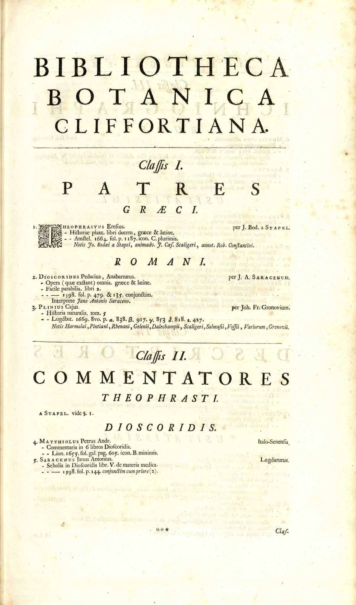 Linnaeus, C. (1738), Hortus Cliffortianus, first page of bibliotheca botanica cliffortiana.